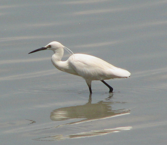 Little Egret (Egretta garzetta nigripes), male in breeding plumage, Taipei, Taiwan